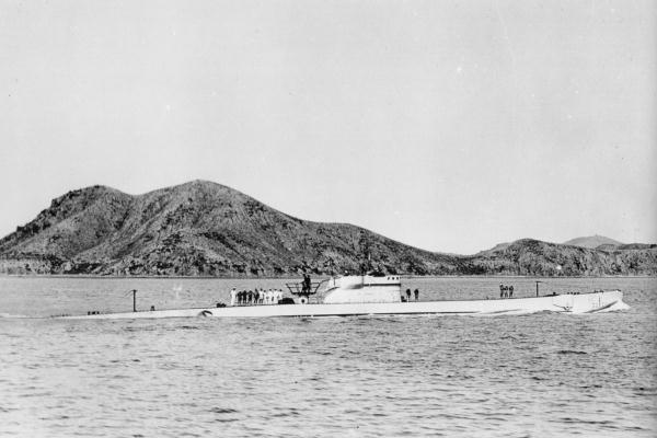 Germany submarine UIT24 at the Inland Sea, Japan. (ex - Italian submarine Conmandante Cappelini, later IJN submarine I-503